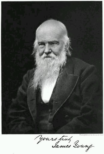 Photograph of James Young, the Scottish chemist